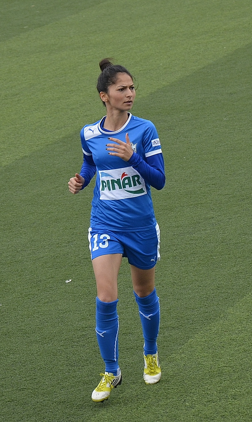 Sibel Duman for Konak Belediyespor in the 2013-14 season